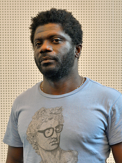 Writer Gauz during a book fair in Le Mans, october 2014.